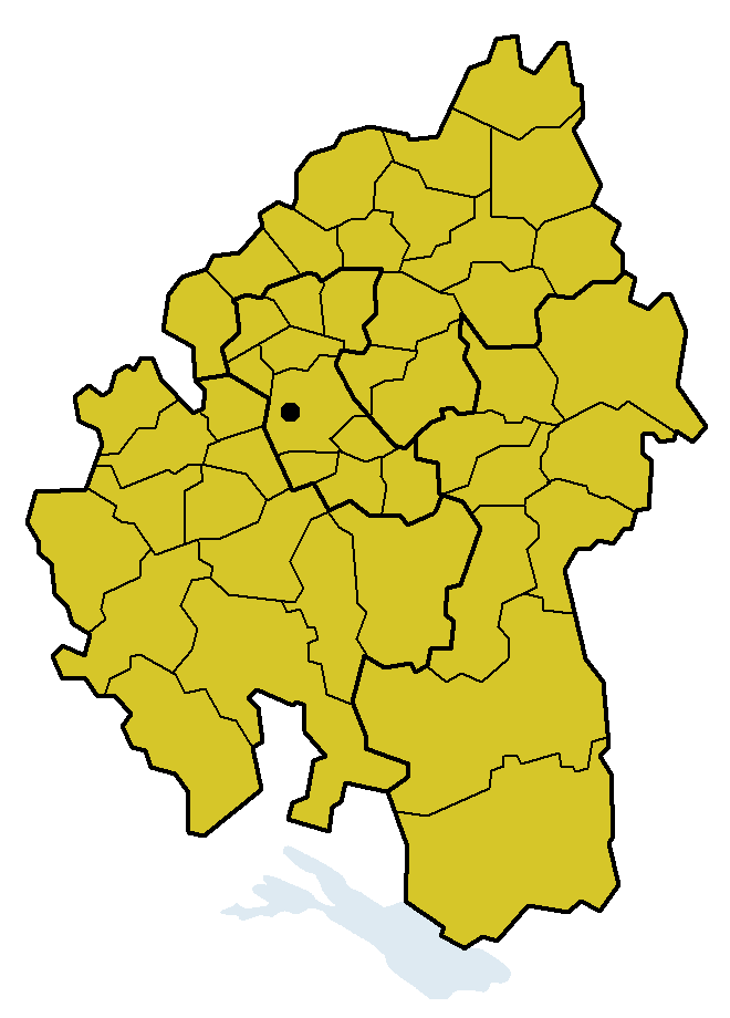 Map of the administrative subdivisions of the Evangelical-Lutheran Church of Württemberg from 1 December 2013